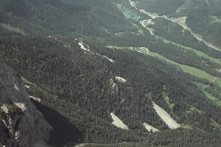 View of the Silberleithe/Tyrol/Austria from North-East.